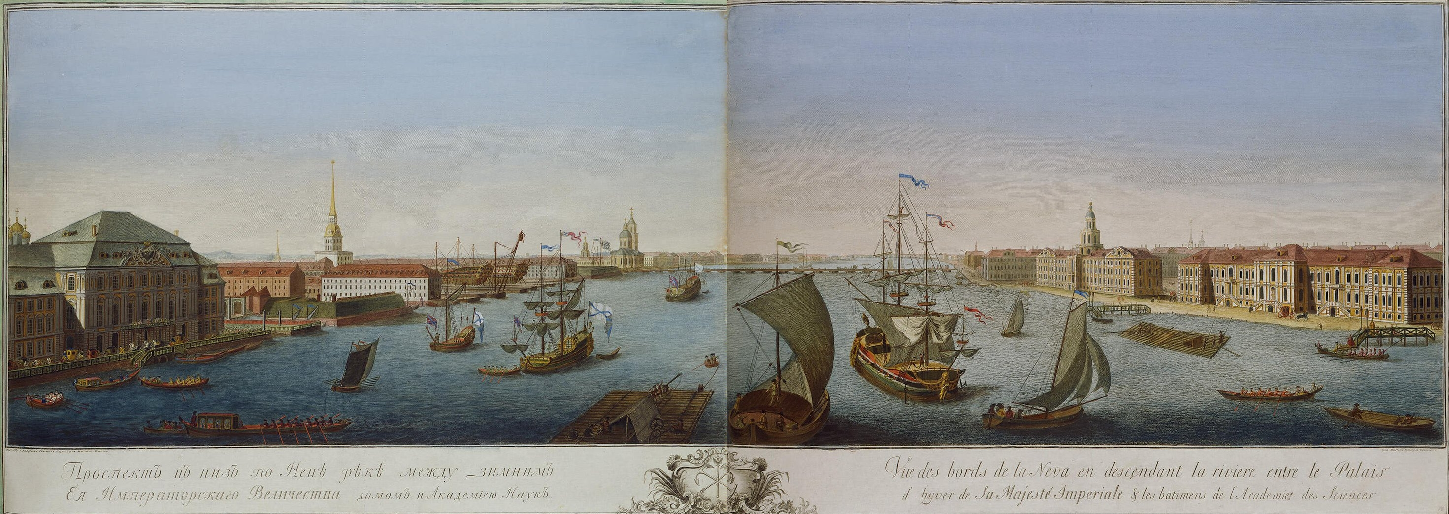 «View of the Neva Downstream between the Winter Palace and the Academy of Sciences». Etching with line engraving and watercolour. State Hermitage.